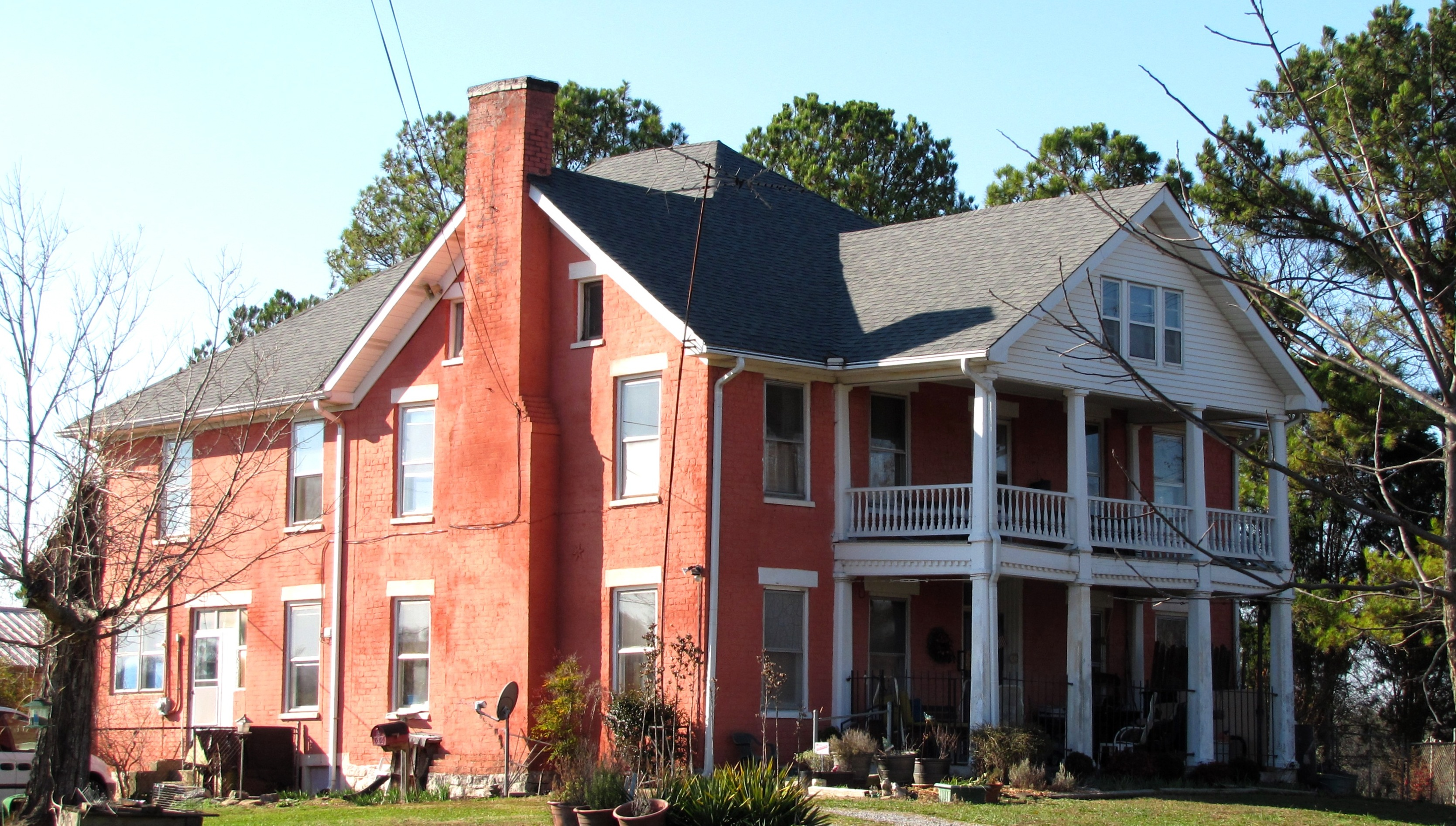 The Isaac Yearout House on Big Springs Road in Blount County, Tennessee, USA. Built in the early 1900s, this house is now listed on the National Register of Historic Places.